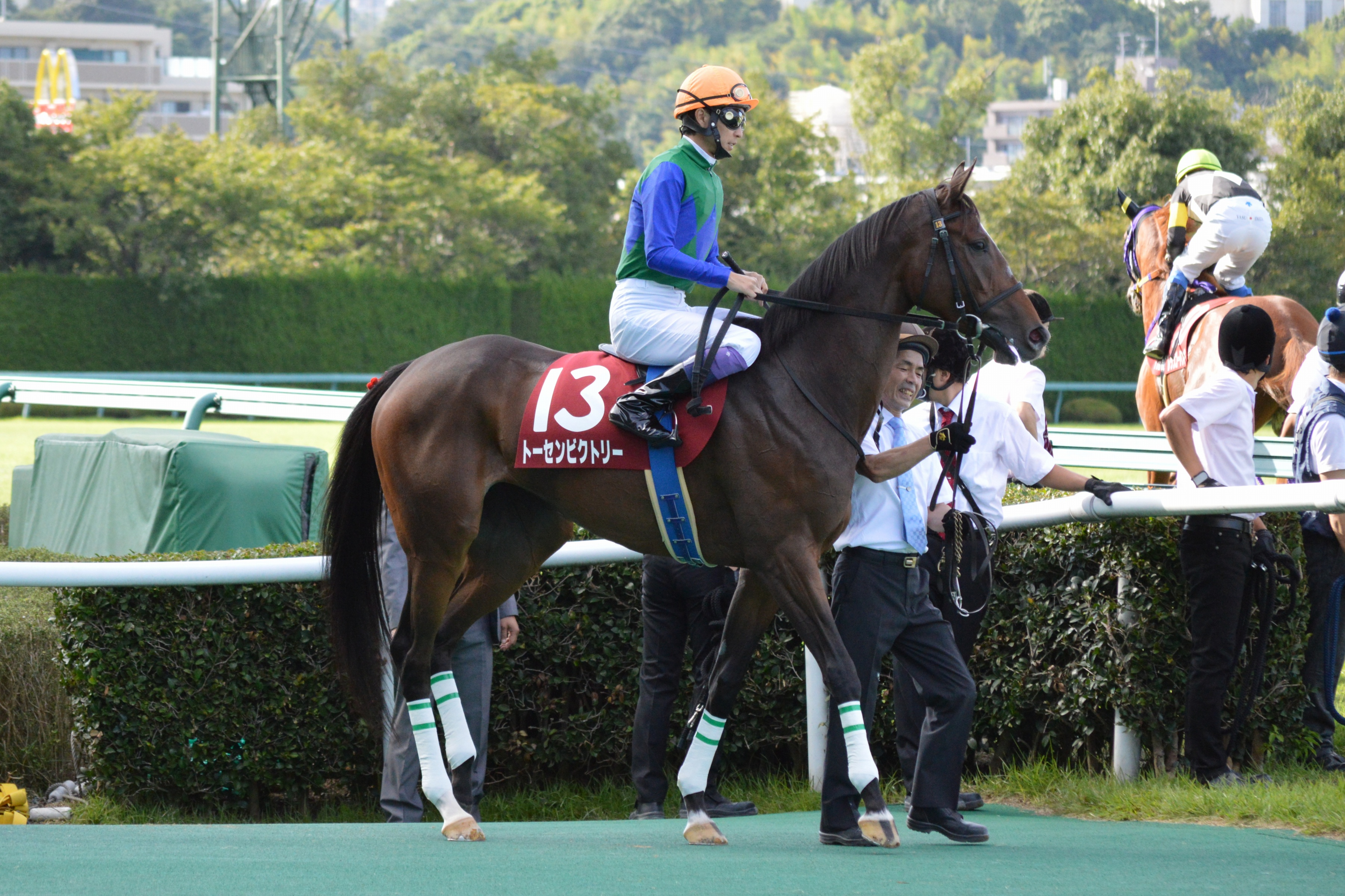 Japanese race horse Tosen Victory at Hanshin racecourse. Hanshin (JPN) 20 Sep 2015 Kansai Telecasting Corp. Sho Rose Stakes (Shuka Sho Trial) (Grade 2) (3yo Fillies) (Turf) (3yo) 1m1f Firm RankHorse NameOddsAgeWgtTrainerJockey1stTouching Speech (JPN)122/10F38-7Sei IshizakaChristophe-Patrice Lemaire2ndMikki Queen (JPN)8/5FF38-7Yasutoshi IkeeSuguru Hamanaka3rdTosen Victory (JPN)54/10F38-7Katsuhiko SumiiYutaka Take4th - 17th/omission